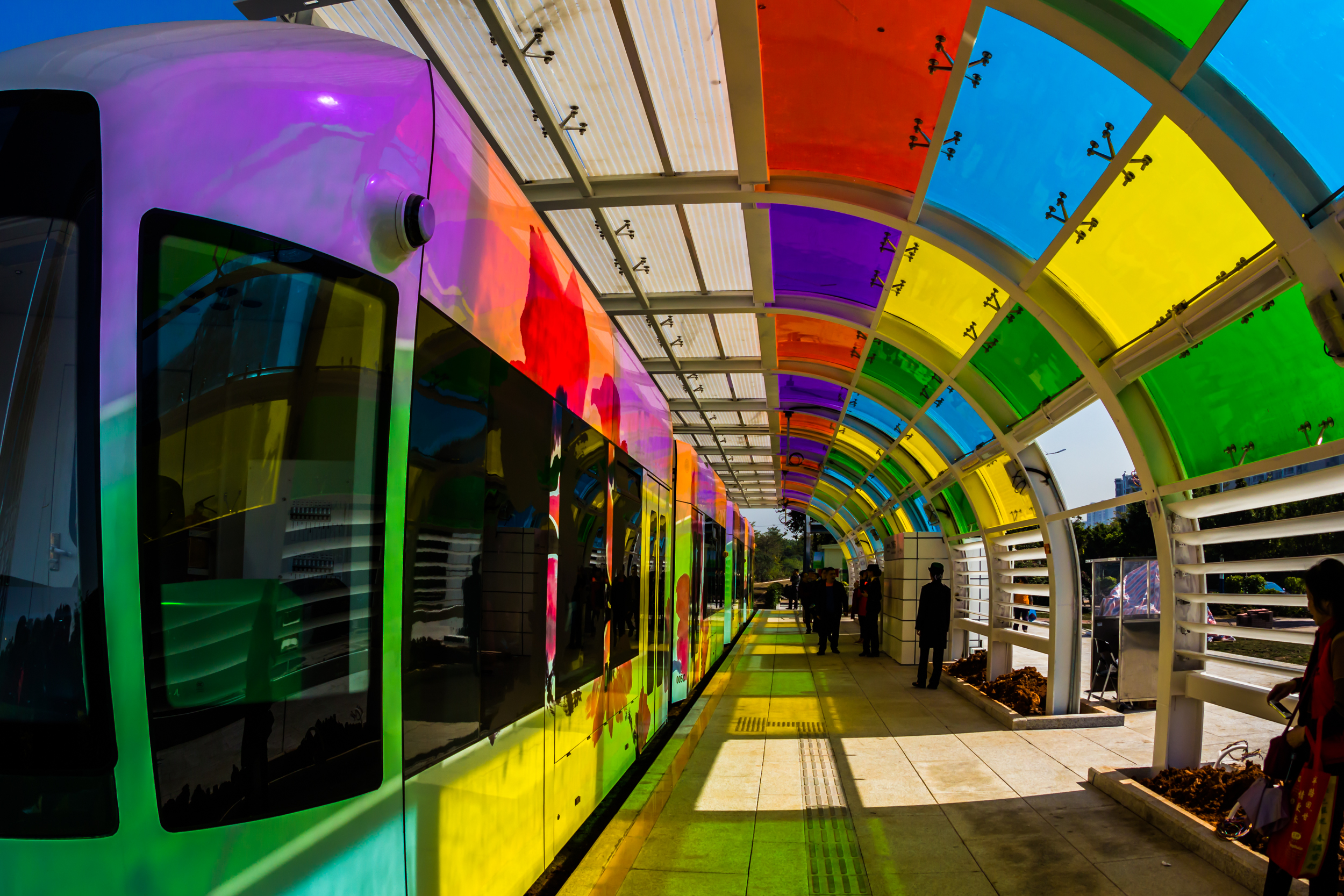 Canton Tower East Station of THZ1